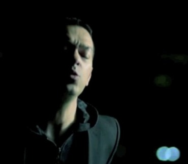 march 2010